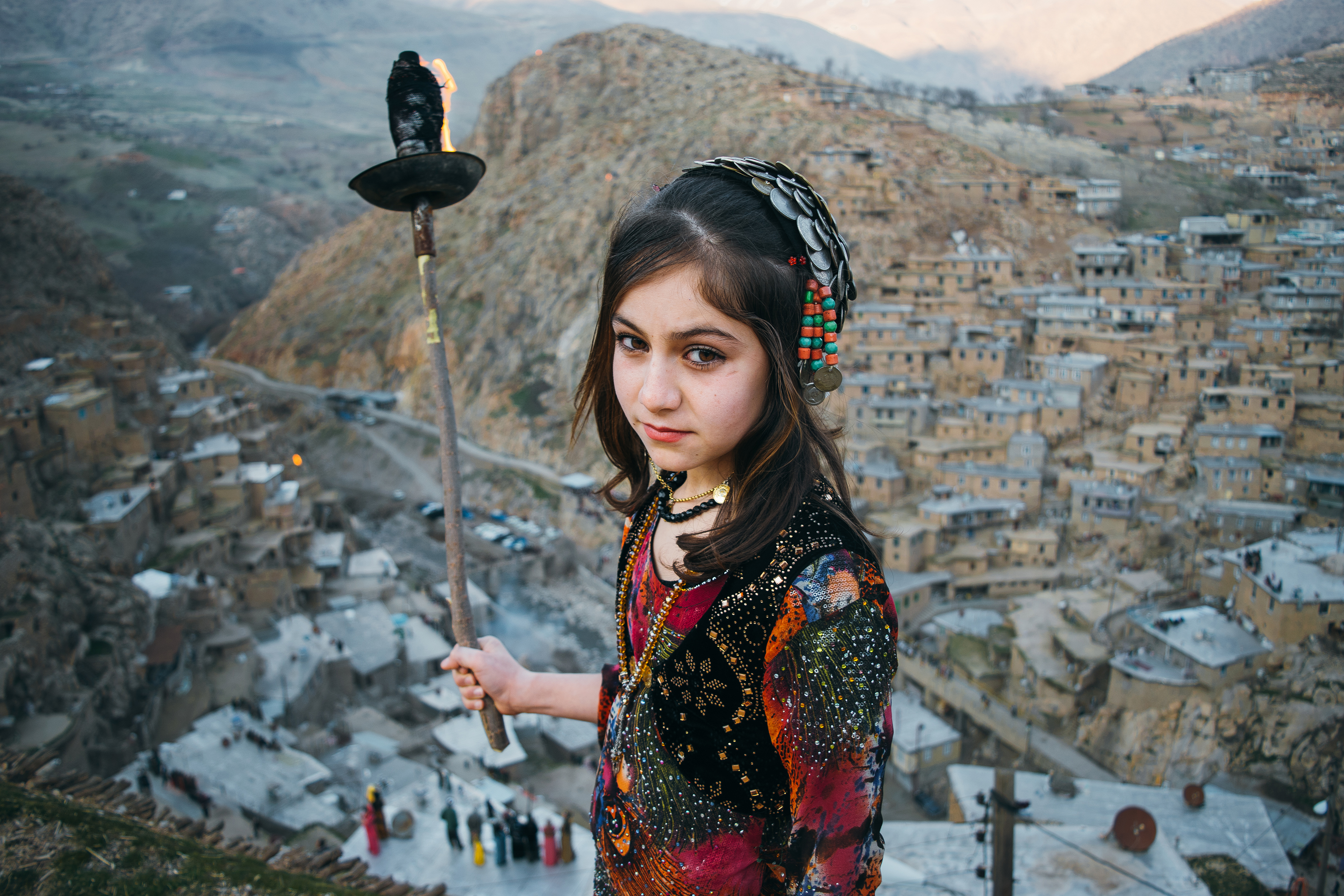 A village girl, Palangan, Kurdistan, Iran. At the beginning of spring, Kurdish people according to their customs and culture, celebrate an annual celebration called Nowruz or kindling fire. Nowruz and Kurdish clothes are symbols of Kurdish culture.